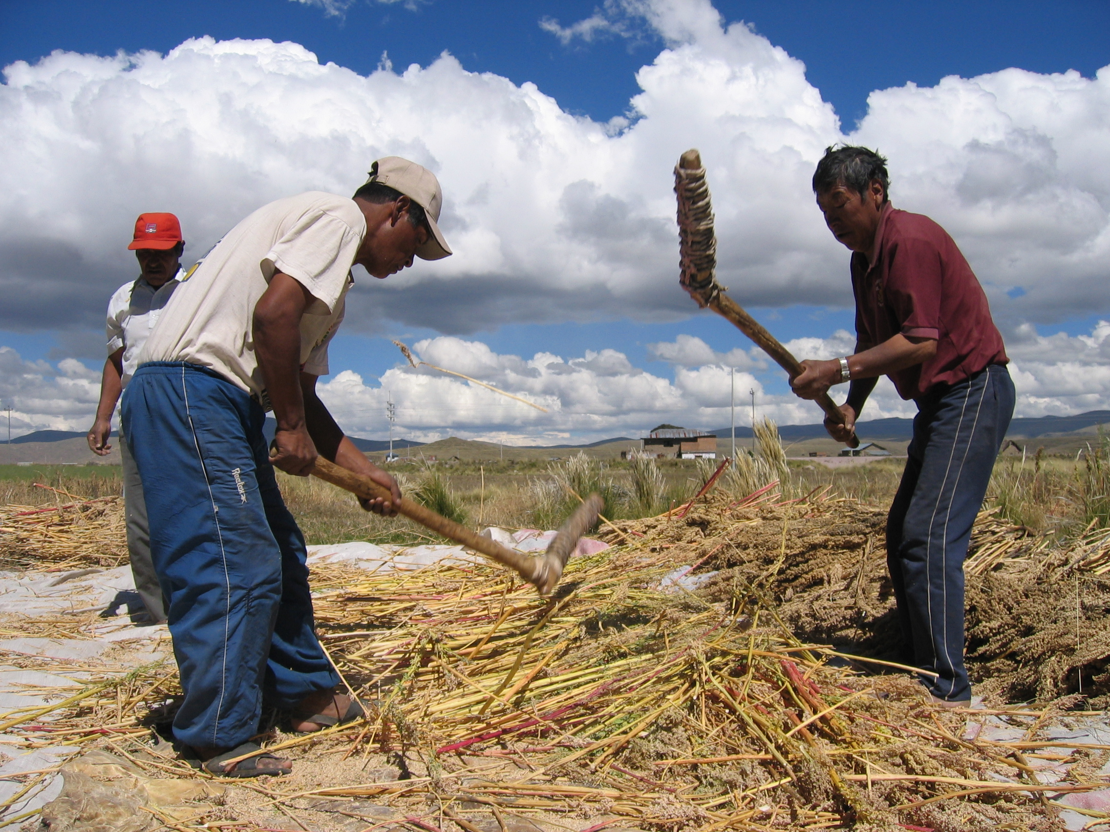 Farmers threshing quinoa (Chenopodium quinoa), near Puno, Peru.